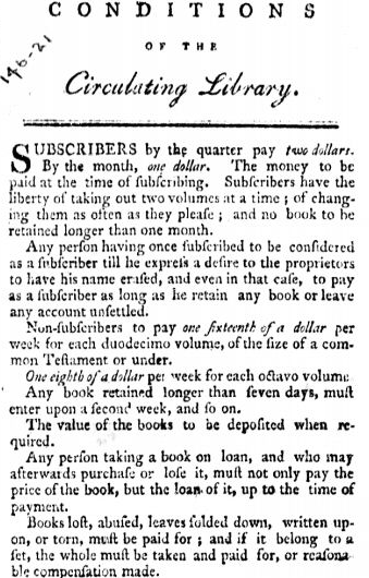 From: Catalogue of W.P. & L. Blake's circulating library at the Boston Book-Store, no.1, Cornhill (Boston: William P. and Lemuel Blake, 1800)